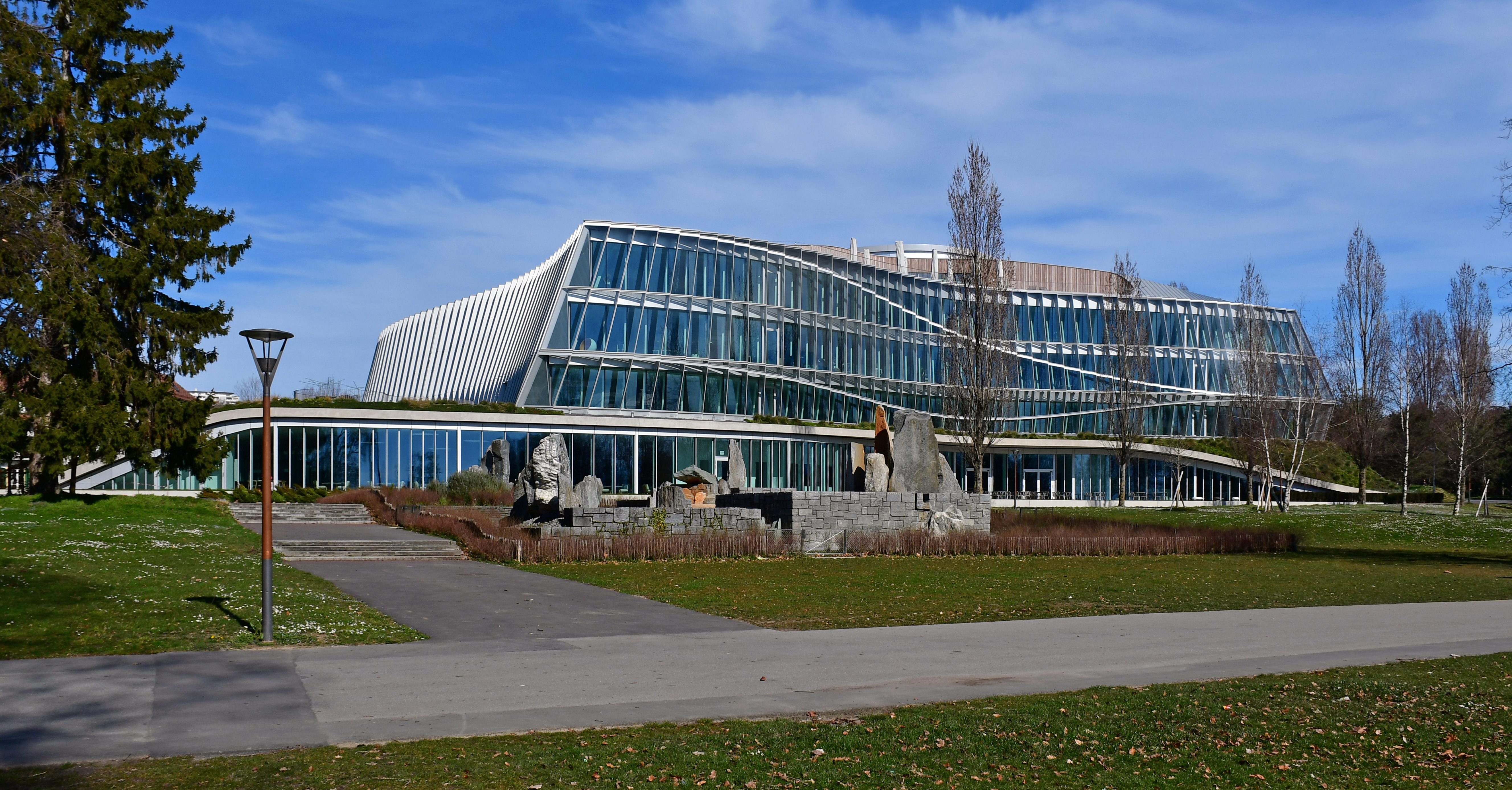 International Olympic Committee Headquarters (Lausanne, Switzerland)